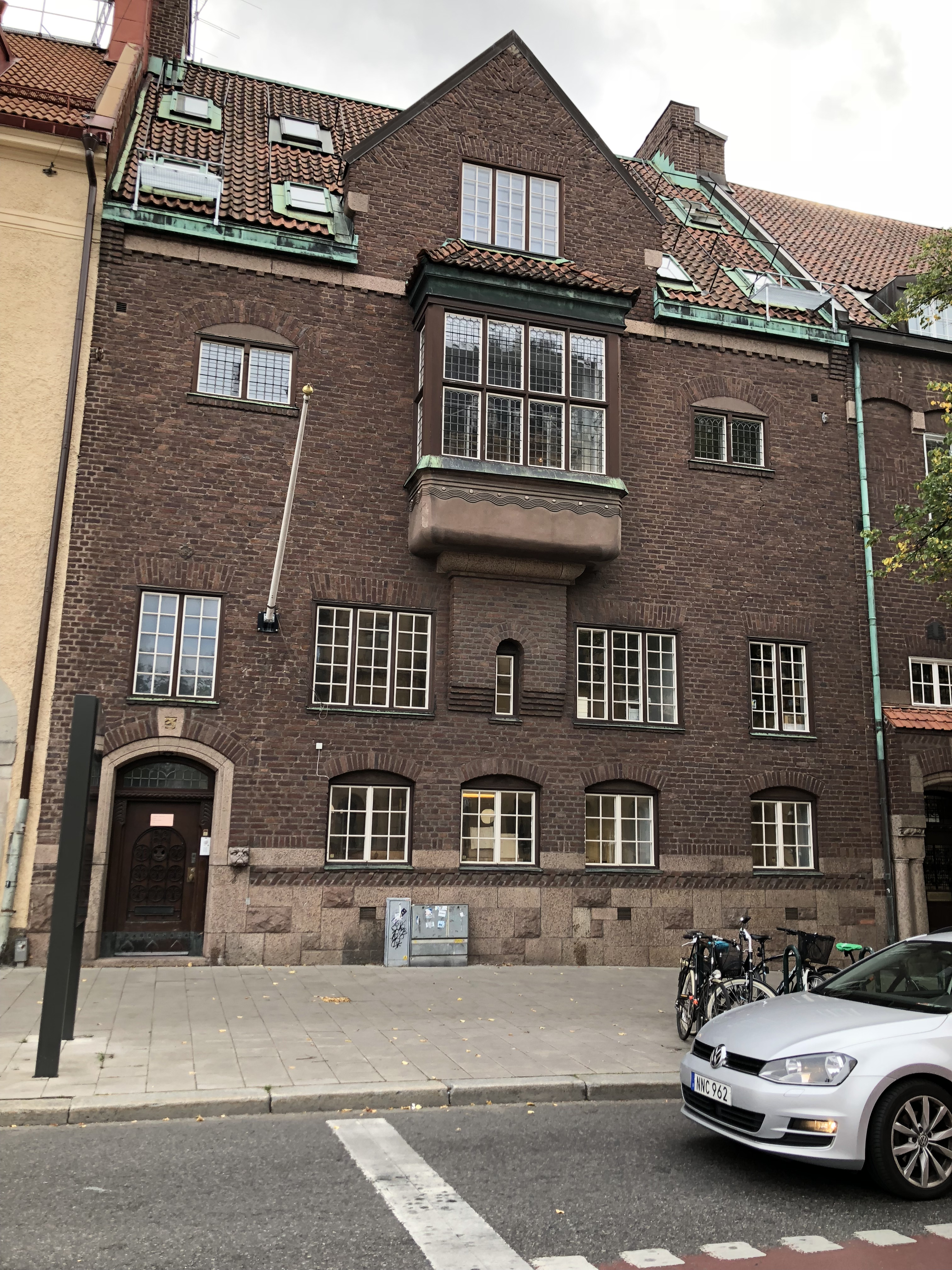 Brick house on Odengatan 3, Stockholm, Sweden, 2018